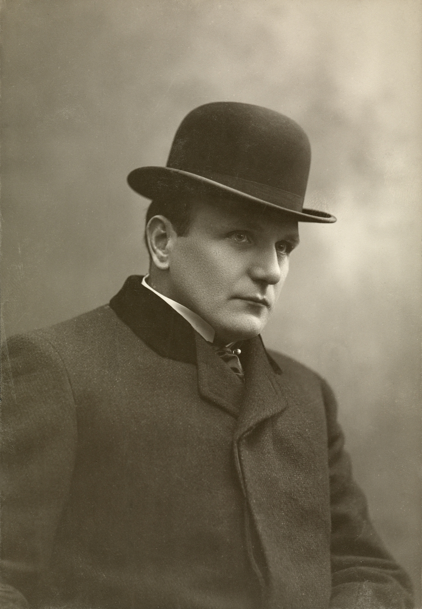 Actor Egil Eide.